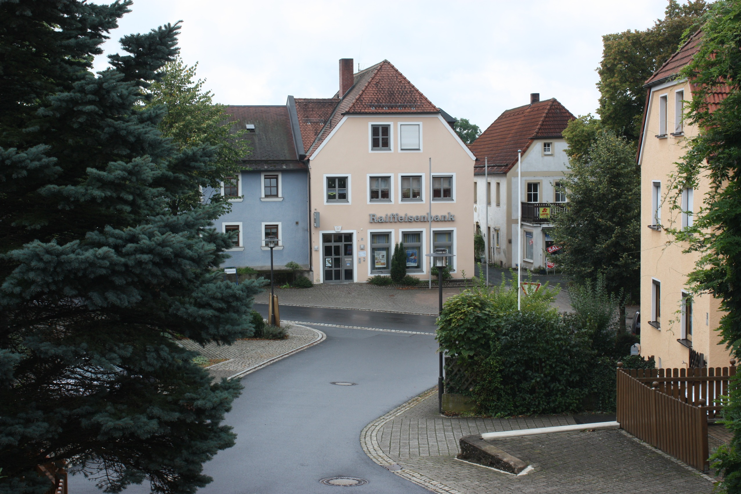 Kastl bei Kemnath, the centre of the village